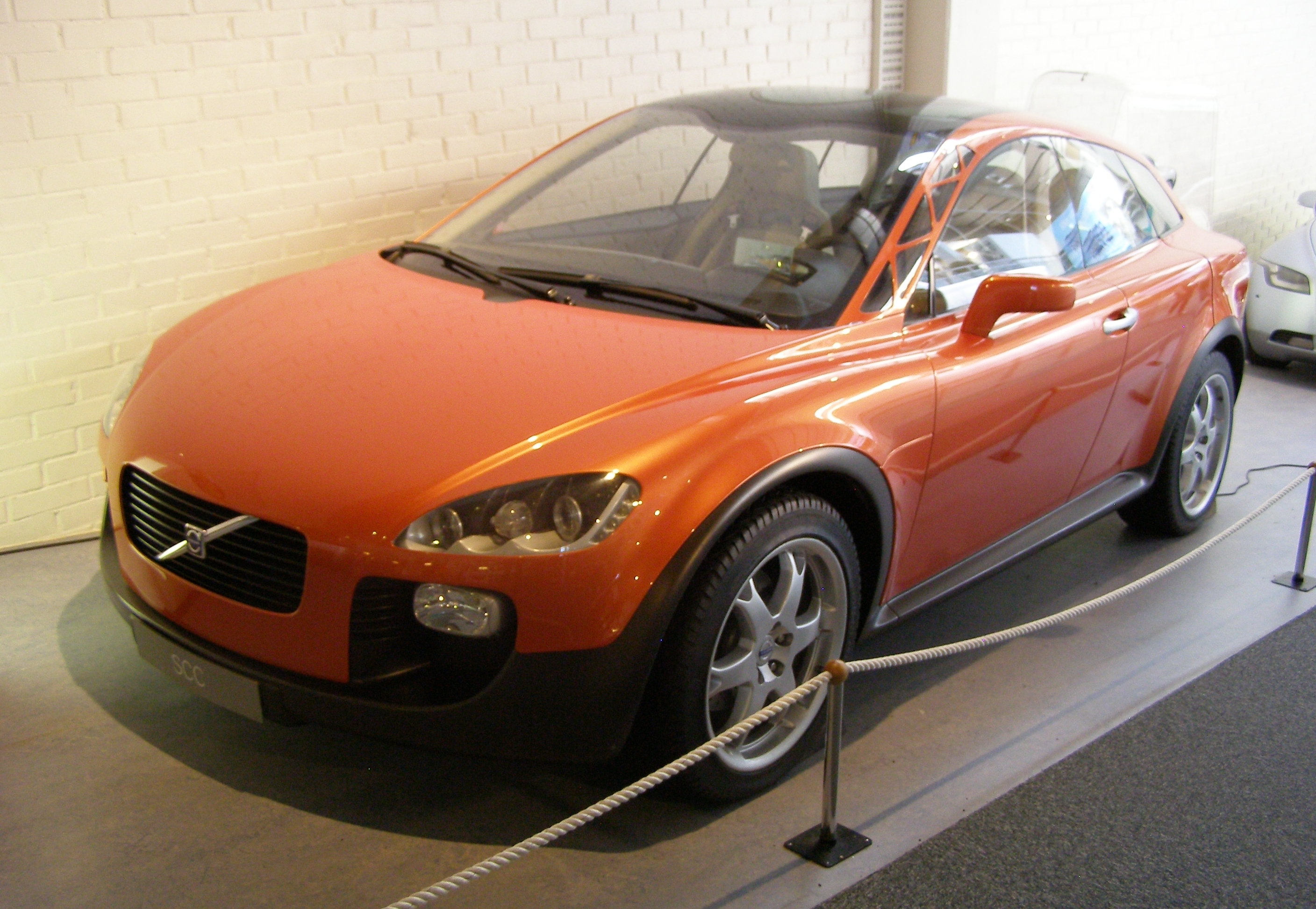 Gothenburg - Volvo Museum - Volvo SCC